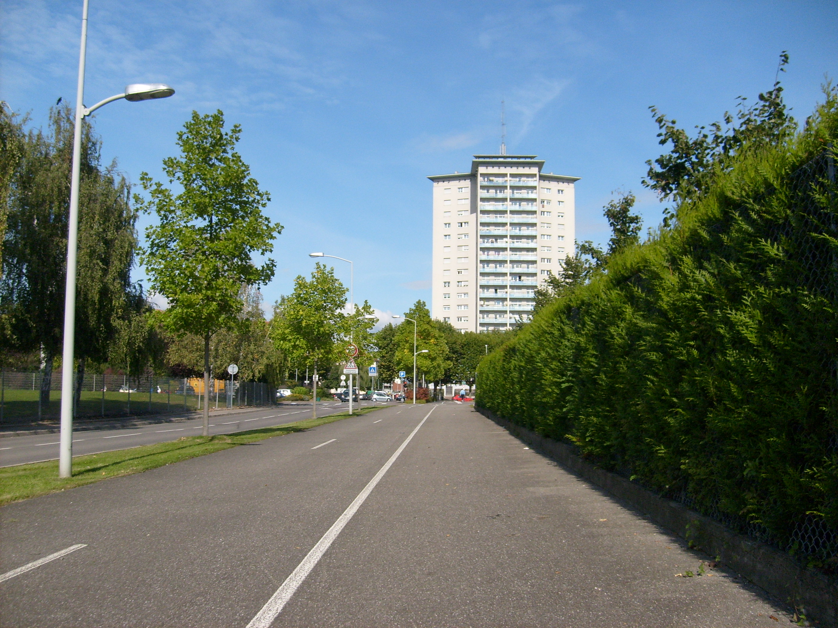 tour schwab -cité de l'ill ,strasbourg ,alsace ,france